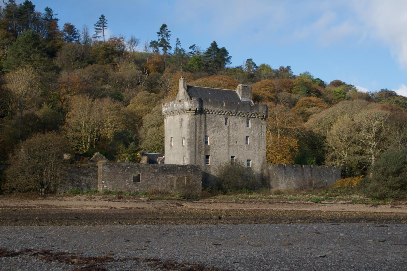 At the end of a very very pleasant five days - loved every minute of it!